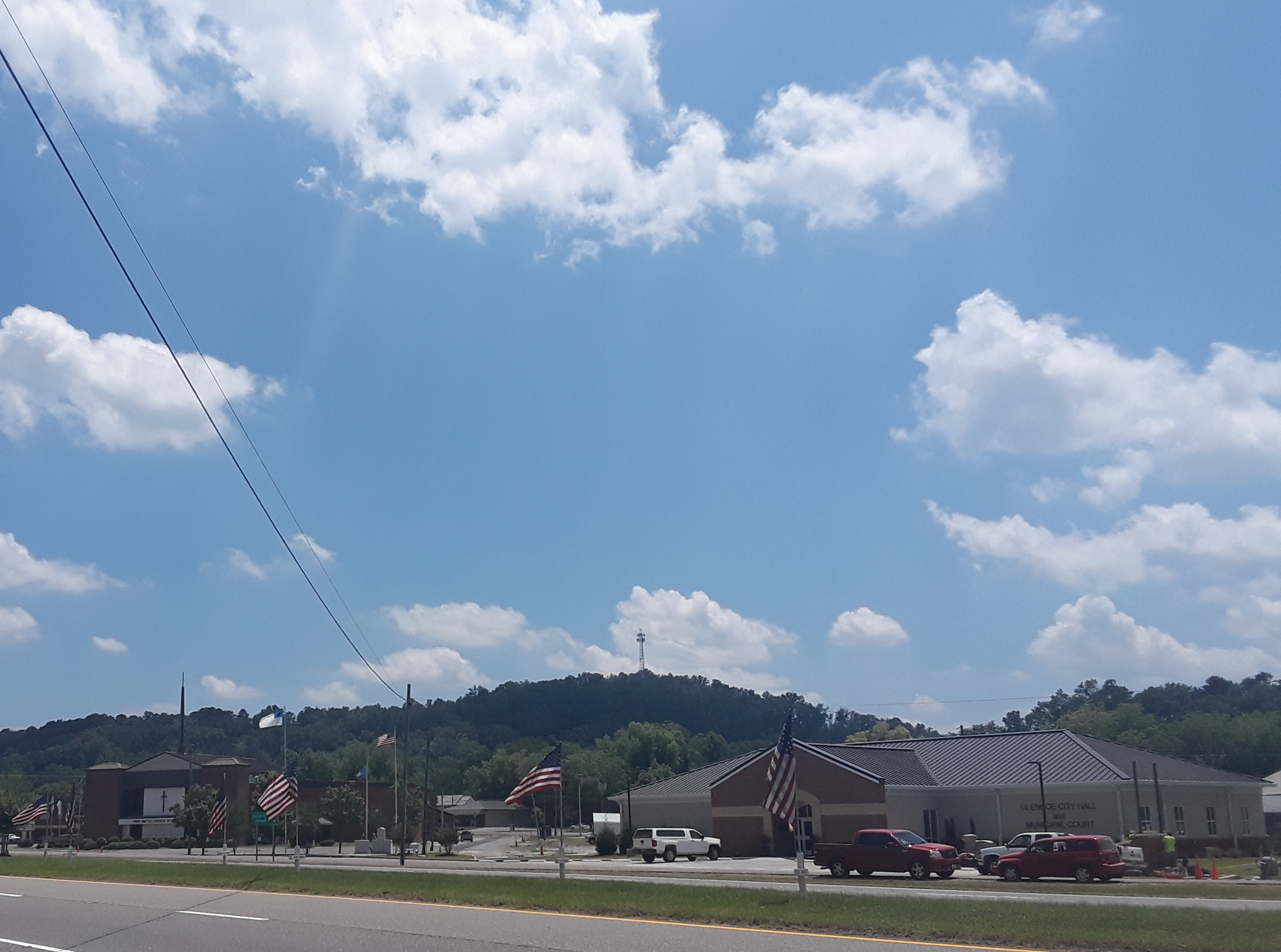 City Hall of Glencoe, Alabama (right), First Baptist Church of Glencoe (left), with Memorial Day flags in the foreground. Picture taken from across US Highway 431 on May 28th 2019